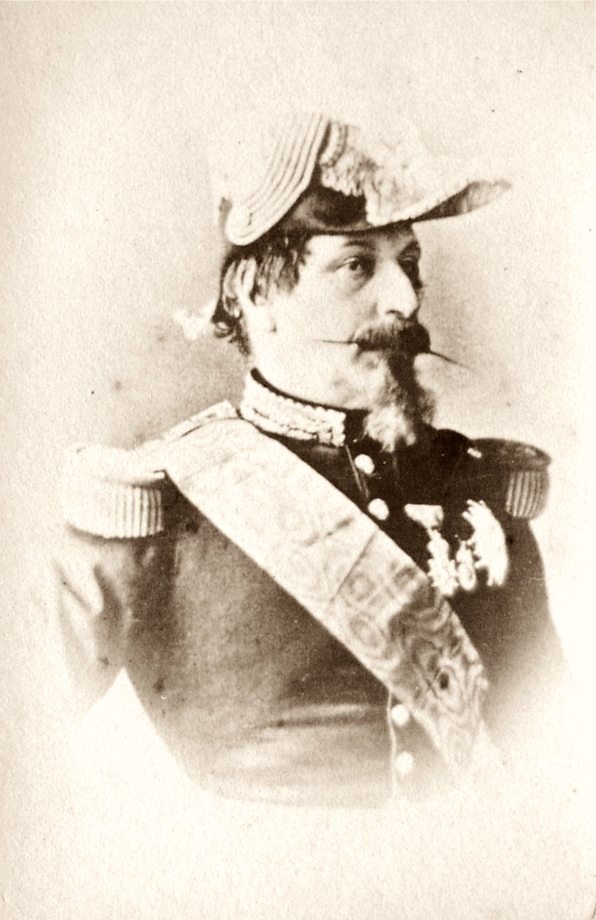 Napoleon III of France, Charles-Louis Napoleon Bonaparte